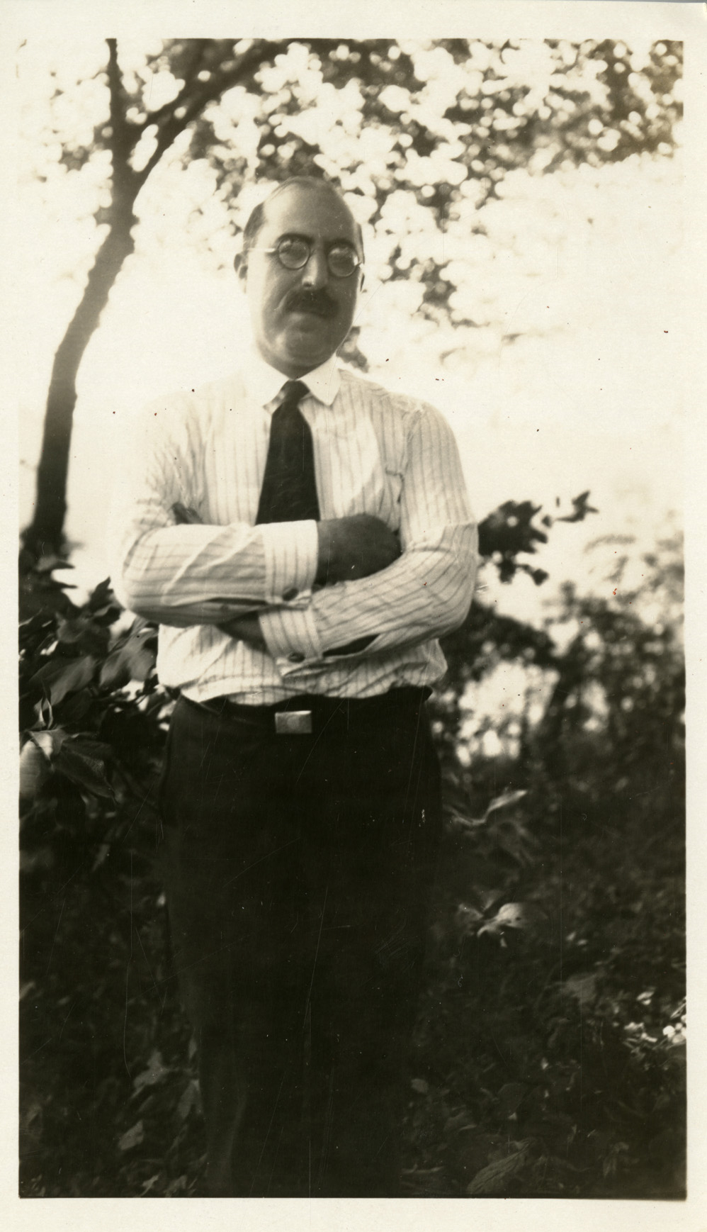 Local number: SIA Acc. 90-105 [SIA2010-2140] Summary: Jacob Goodale Lipman (1874-1939) was Professor and Dean of Agriculture and the Director of the New Jersey Agricultural Experiment Station (NJAES) at Rutgers University when he volunteered to testify at the 1925 Scopes anti-evolution trial, where this photograph was taken. Lipman was not allowed to testify on the stand but his statement was entered into the court record. An internationally known expert on soil science, Lipman had been born in Friedrichstadt, Russia, and educated in the United States. Soon after receiving his Ph.D. from Cornell University, he became a Rutgers professor and the NJAES director. Photograph by Frank Thone. Cite as: Acc. 90-105 - Science Service, Records, 1920s-1970s, Smithsonian Institution Archives Repository:Smithsonian Institution Archives View more collections from the Smithsonian Institution.